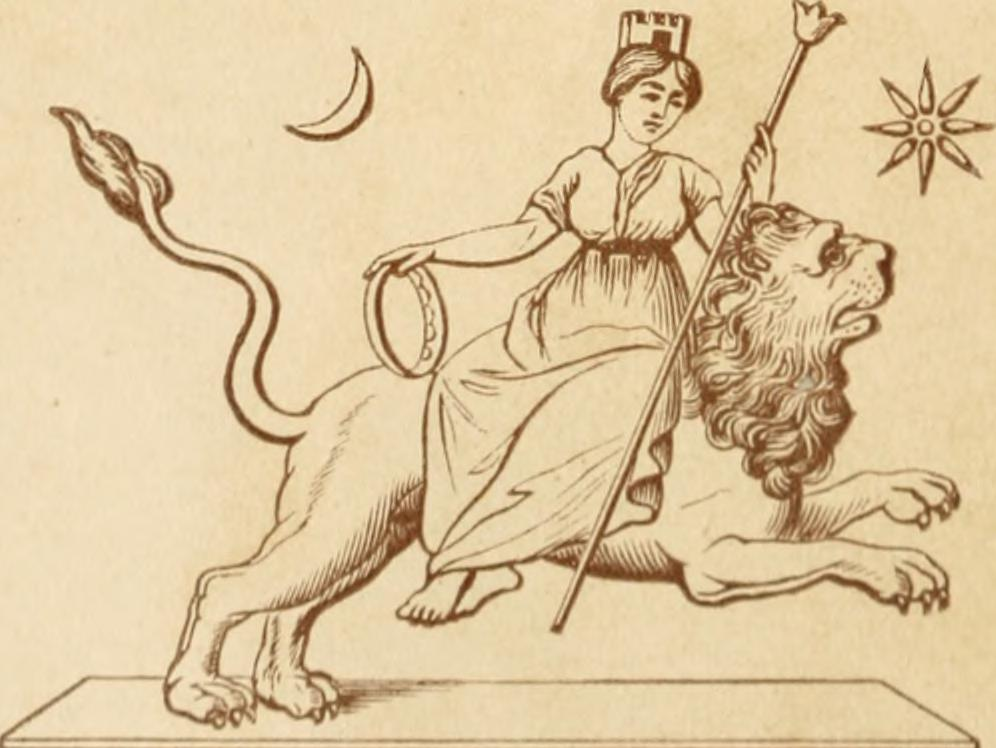 Title: Manual of mythology : Greek and Roman, Norse, and old German, Hindoo and Egyptian mythology Year: 1875 (1870s) Authors: Murray, A. S. (Alexander Stuart), 1841-1904 Subjects: Mythology Publisher: New York : Scribner, Armstrong Text Appearing Before Image: Kronos. Text Appearing After Image: Rhea. KRONOS. 29 K R O N O S, (plate I.,) The ripencr, the harvest god, was, as we have already re-marked, a son of Uranos. That he continued for a long timeto be identified with the Roman deity, Saturnus, is a mis-take which recent research has set right, and accordingly weshall devote a separate chapter to each. Uranos, deposedfrom the throne of the gods, was succeeded by Kronos, whomarried his own sister Rhea, a daughter of Gaea, who borehim Pluto, Poseidon (Neptune), and Zeus (Jupiter),Hestia (Vesta), Demeter (Ceres), and Hera (Juno). Toprevent the fulfilment of a prophecy Svhich had been commu-nicated to him by his parents, that, like his father, he toowould be dethroned by his youngest born, Kronos swallowedhis first five children apparently as each came into the world.But when the sixth child appeared, Rhea, his wife, determinedto save it, and succeeded in duping her husband by givinghim a stone (perhaps rudely hewn intc? the figure of an infant)wrapped in swaddling clothes, wh